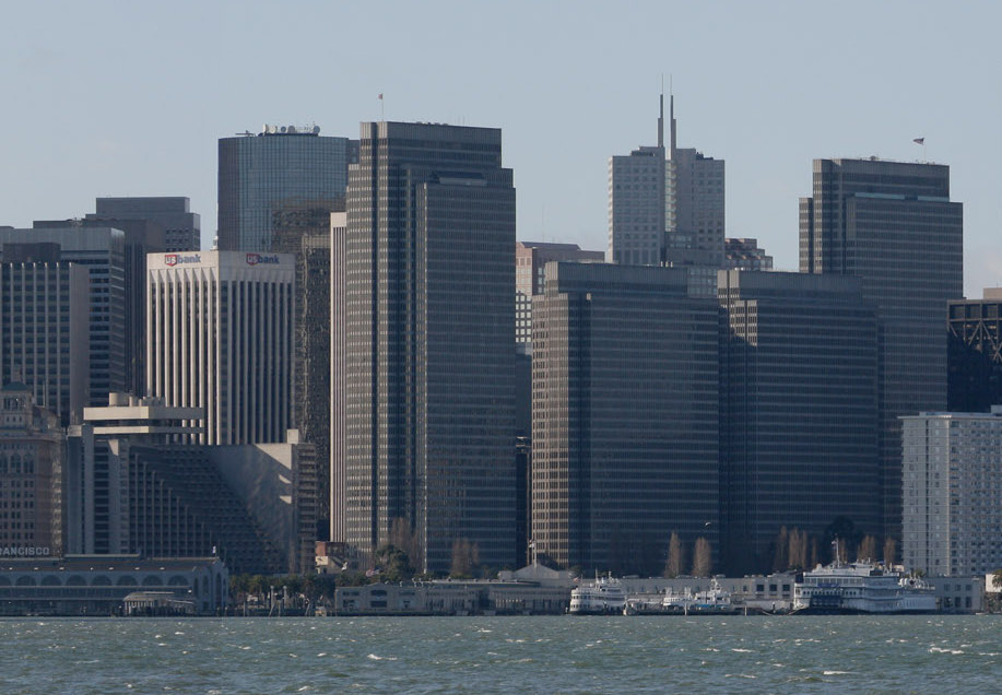 The Embarcadero Center from Treasure Island